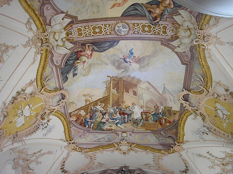 Pilgrimage church St. Rasso at Grafrath near Fuerstenfeldbruck (Upper Bavaria, Germany). The painted ceiling.